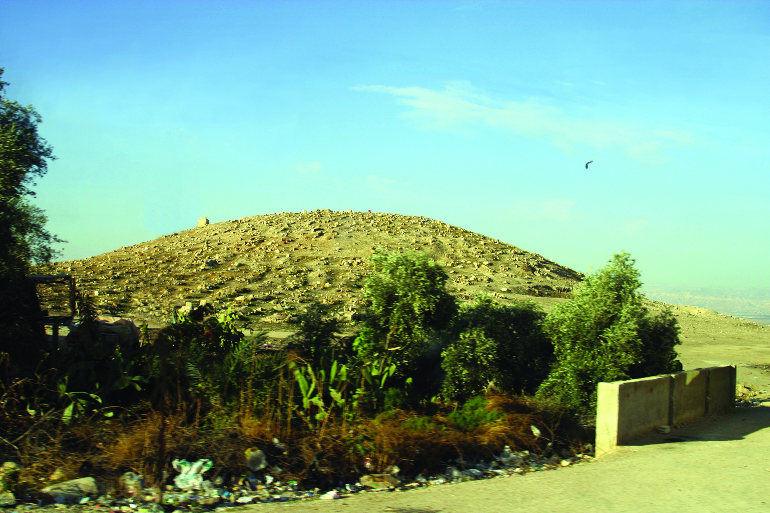 The small tall of Tall er-Rama that some suggest is the ancient city of Livias.